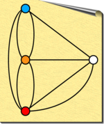 A 4-node graph, similar to Euler's problem of the Seven Bridges of Königsberg, in which the nodes are colored or identified. Eighth and 9th edges have been added. See: Graph theory#Glossary I made it. — Xiong (talk) 21:24, 2005 Mar 20 (UTC)